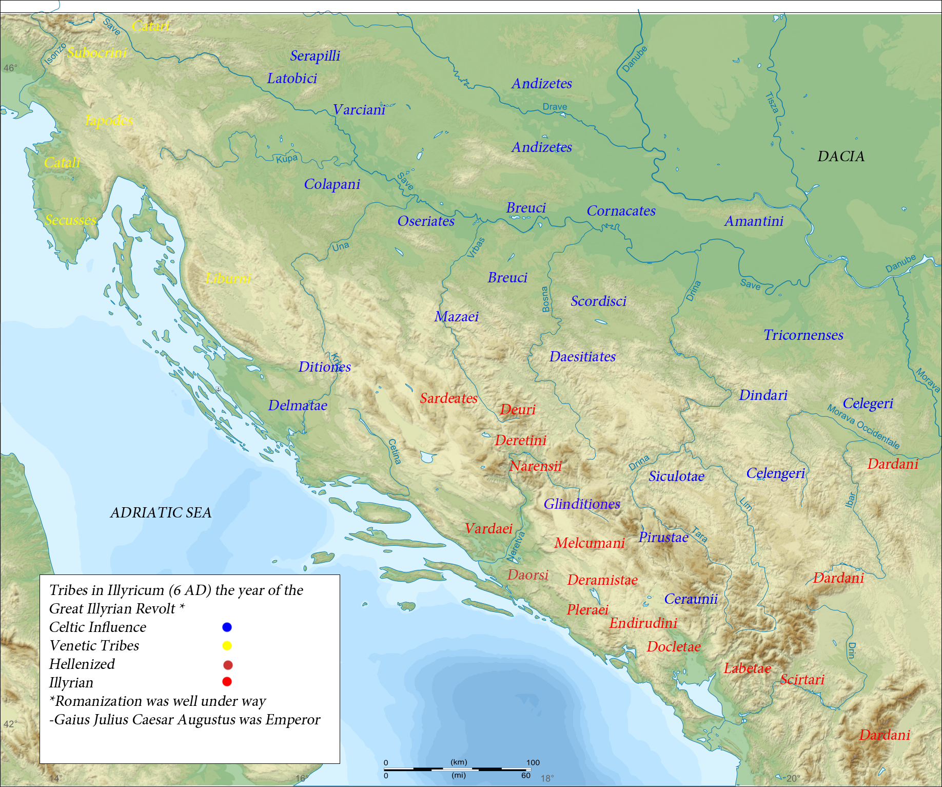 Tribes in Illyricum and environs during AD 6 the year of the Great Illyrian revolt. Own work,data from Pannonia and Upper Moesia: a history of the middle Danube provinces of the Roman Empire,1974,ISBN-0710077149 The Cambridge Ancient History, Vol. 10: The Augustan Empire, 43 BC-AD 69,ISBN-10: 0521264308,1996 The Illyrians (The Peoples of Europe) by John Wilkes,1996,ISBN-9780631198079 The Art treasures of Bosnia and Herzegovina by Đuro Basler, Mirza Filipović, Sulejman Balić,1987 Grčki utjecaj na istočnoj obali Jadrana: zbornik radova sa znanstvenog skupa održanog 24. do 26. rujna 1998. godine u Splitu by Nenad Cambi,ISBN-9531631549,2002 The Oxford Classical Dictionary by Simon Hornblower and Antony Spawforth,2003 Rivolta_pannonica_6_jpg.JPG A dictionary of the Roman Empire Oxford paperback reference,ISBN-0195102339,1995 Blank map from Dinaric_Alps_map-fr.svg